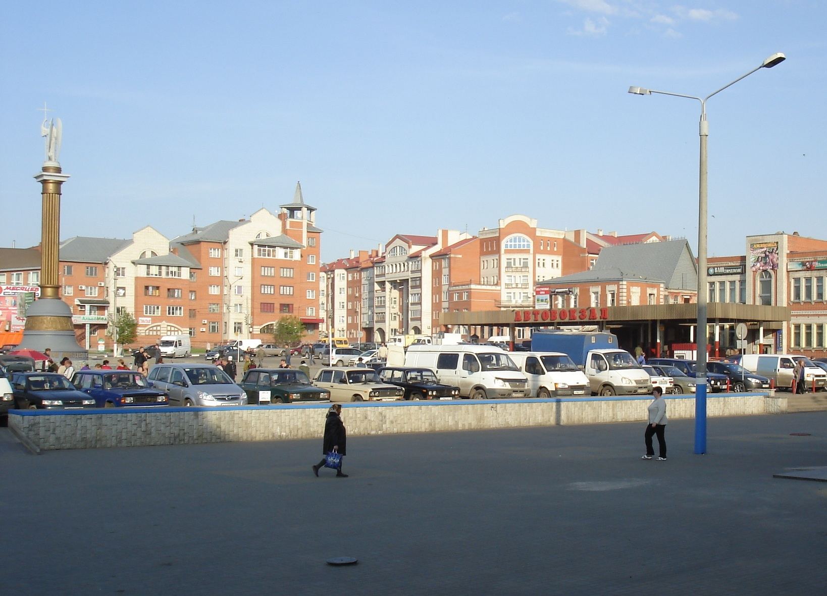 Liski bus station, Voronezh Oblast, Russia. Located nearby train station; train station square.